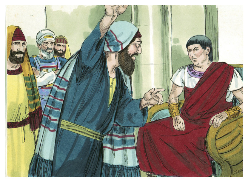 Biblical illustration of Acts of the Apostles Chapter 24